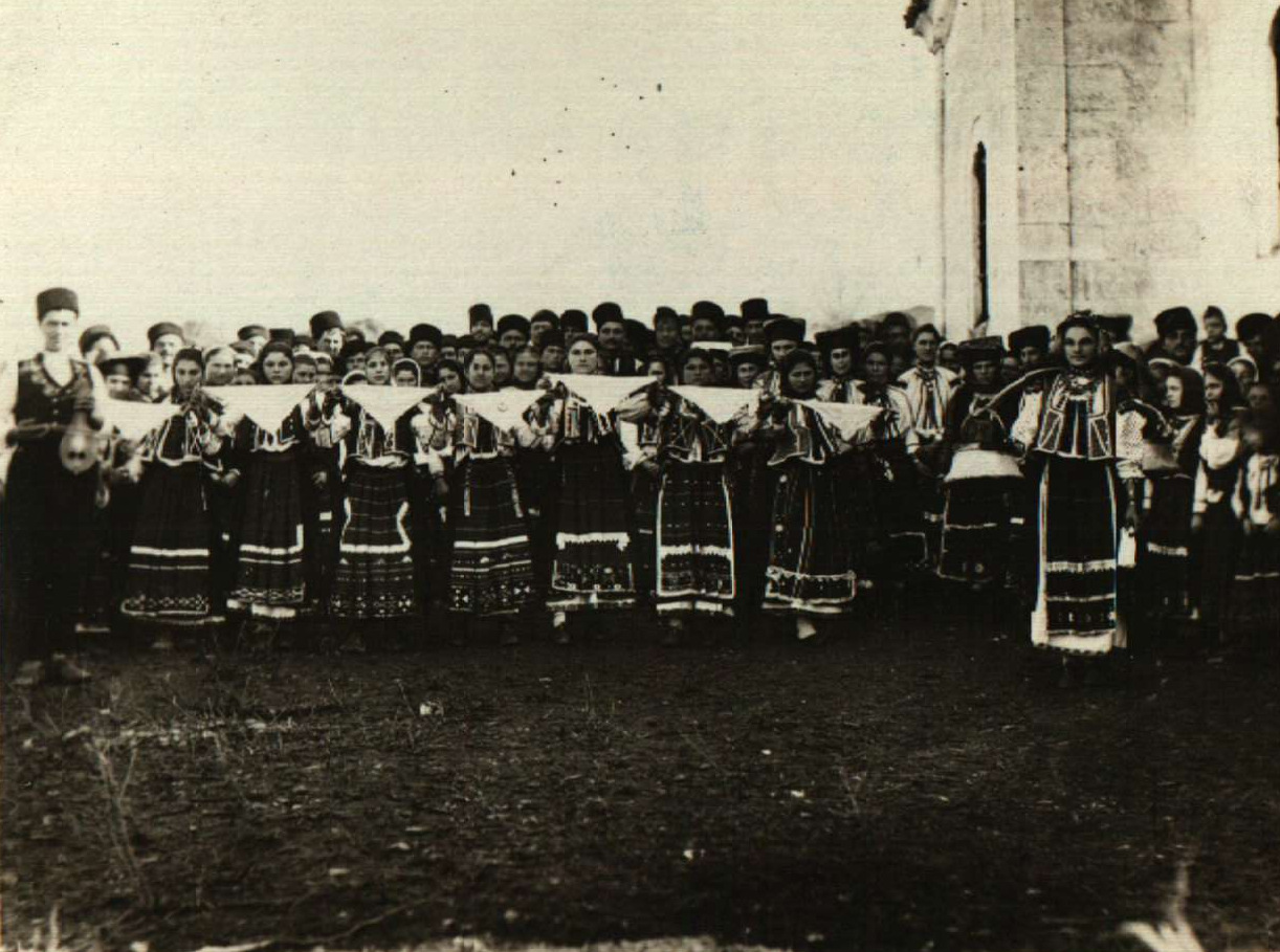 Buenek dance, Bulgaria